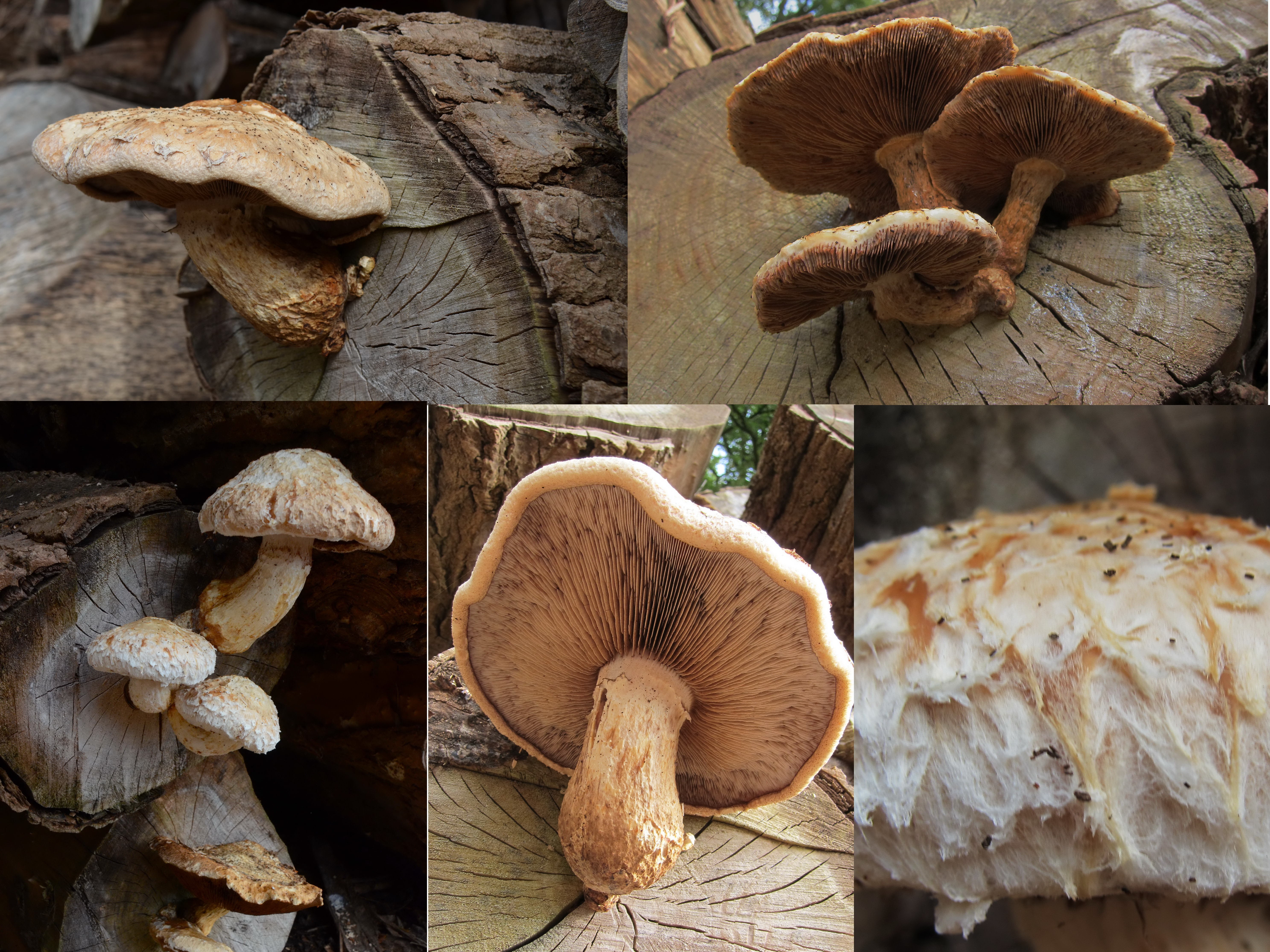 Pholiota populnea (wollige bundelzwam) when growing large : some 20 cm diameter. Right below you can see the hairy skin!